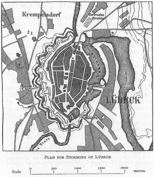 Map showing the storming of Lubeck on 6 November 1806